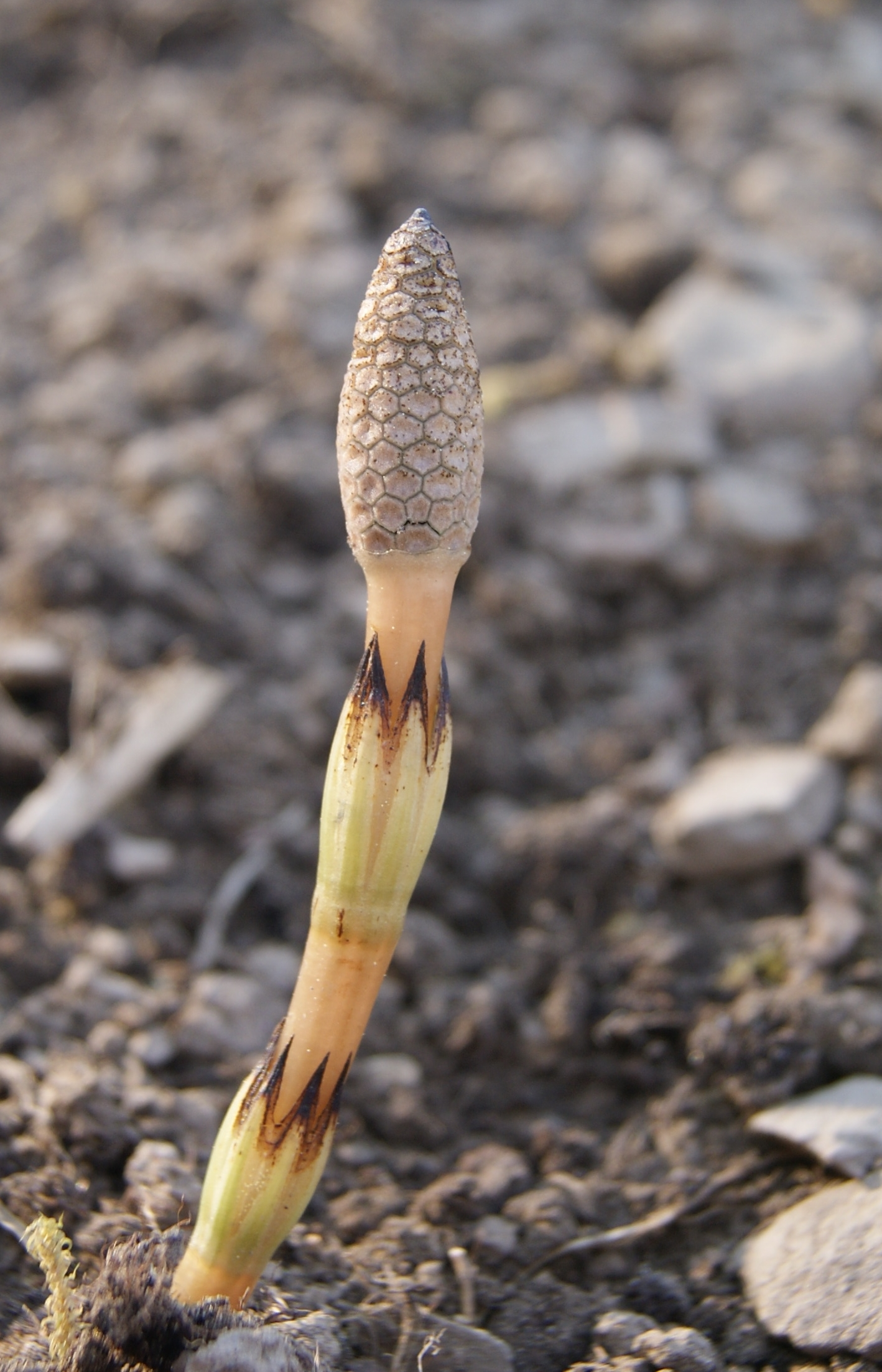 Equisetum arvense